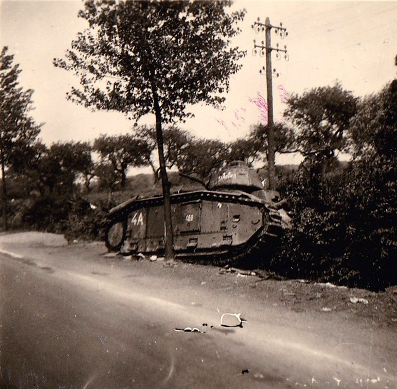 B1bis Verdun II, 37th Tank Battalion, 1st Armoured Division. Abandonned near "Les Trois Pavés", commune of Bas-Lieu, May 1940 (Source).